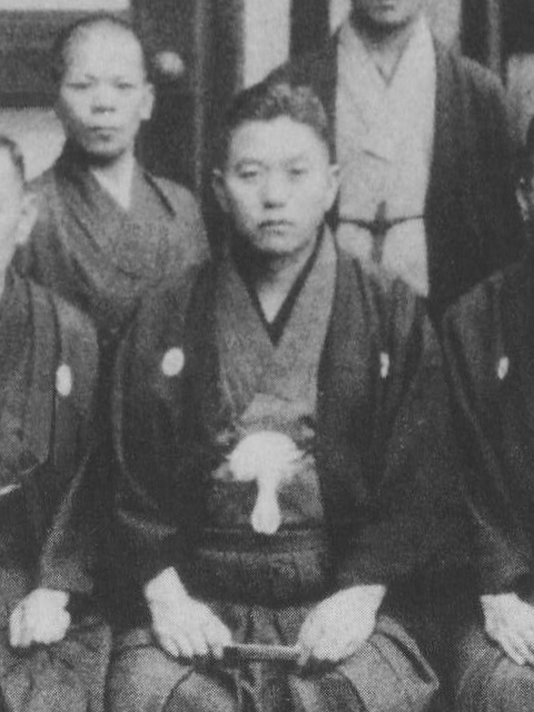 Shin'ichi Murakami (Shogi players). taken in 1939.